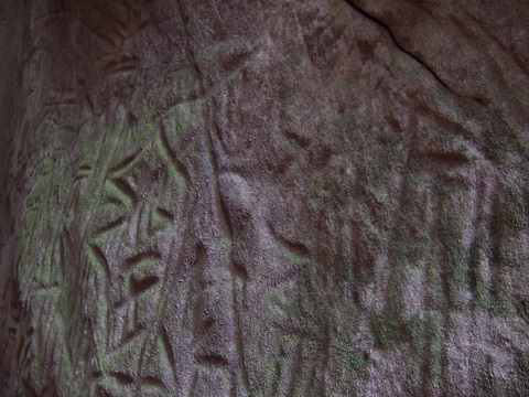 Carvings inside Edakkal Caves in Wayanad